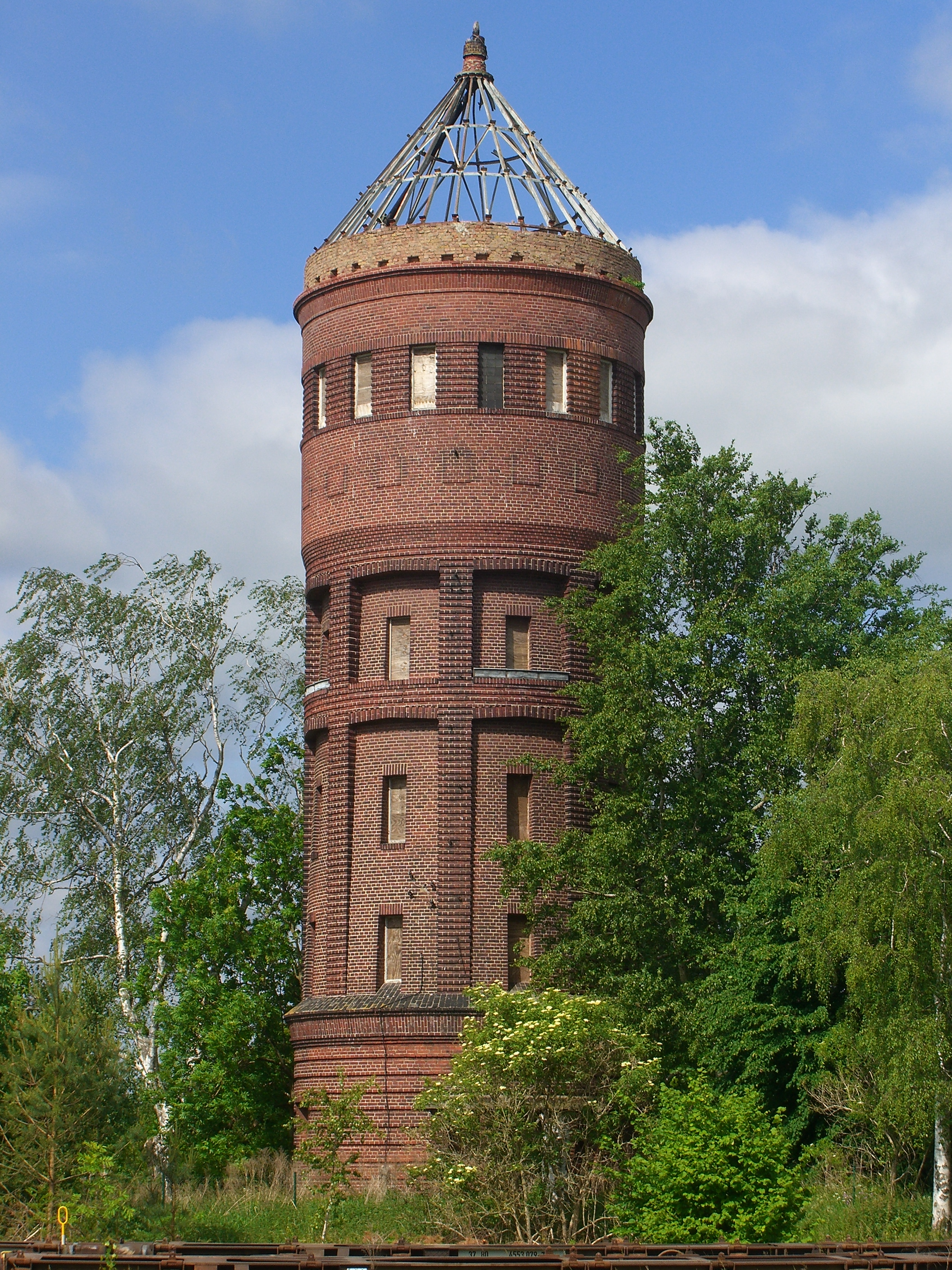 Watertower in Karow